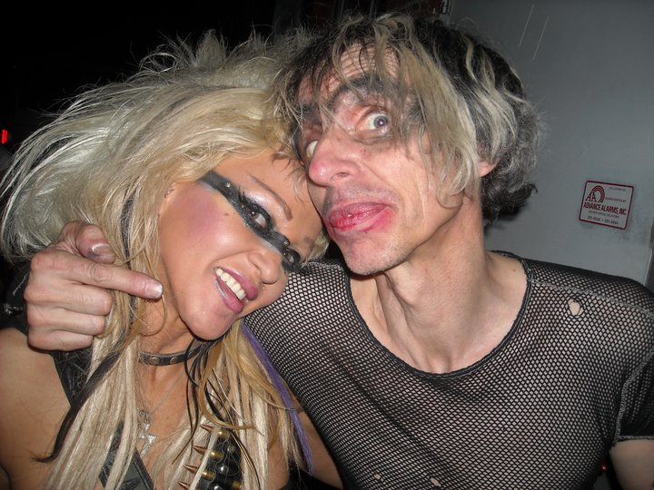 Praga Khan and DJ Mea in Tulsa, OK during their 2011 Sonicangel tour.